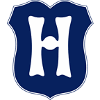 Logo Hertha